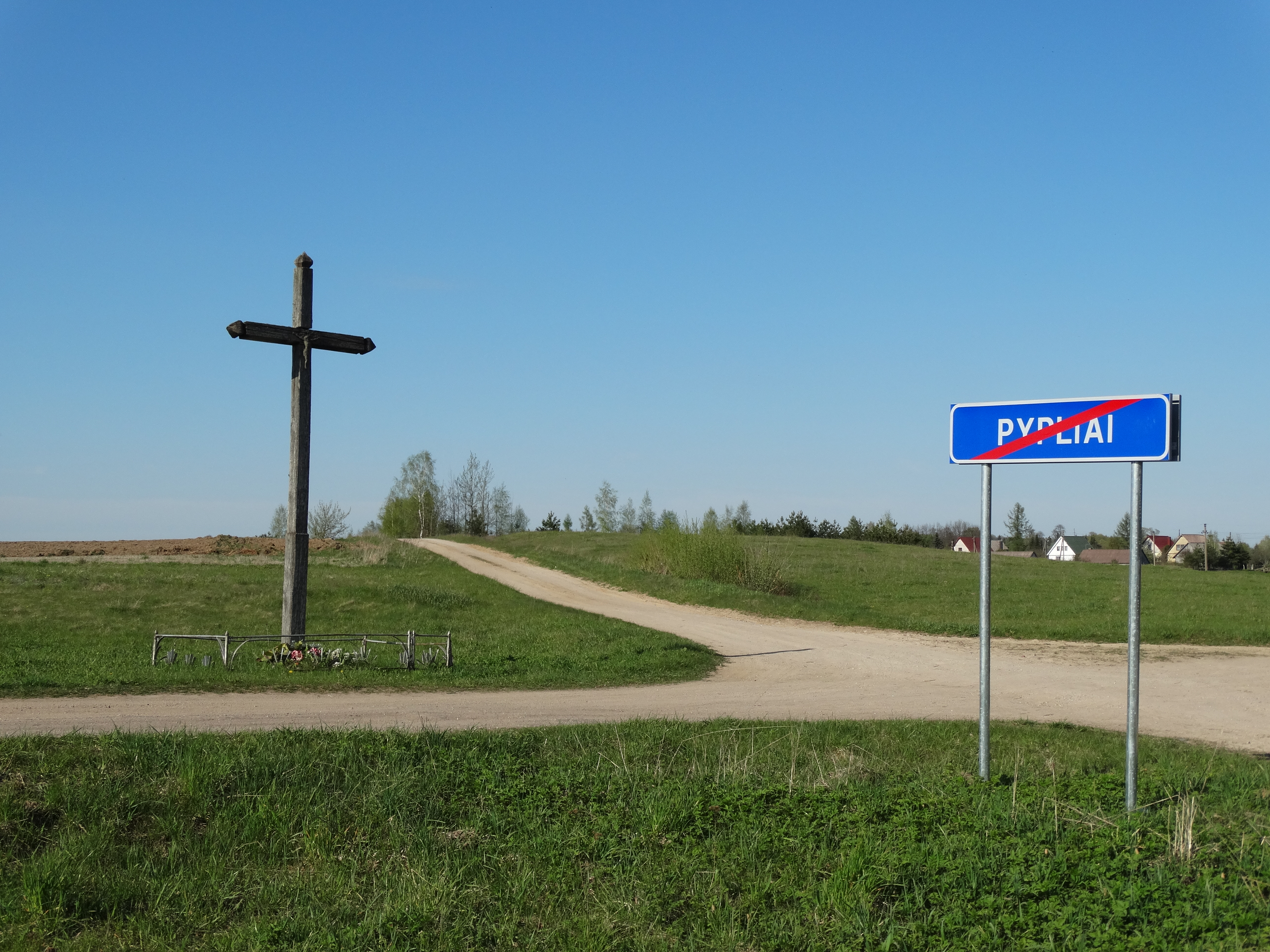 Cross, Pypliai, Širvintos District, Lithuania